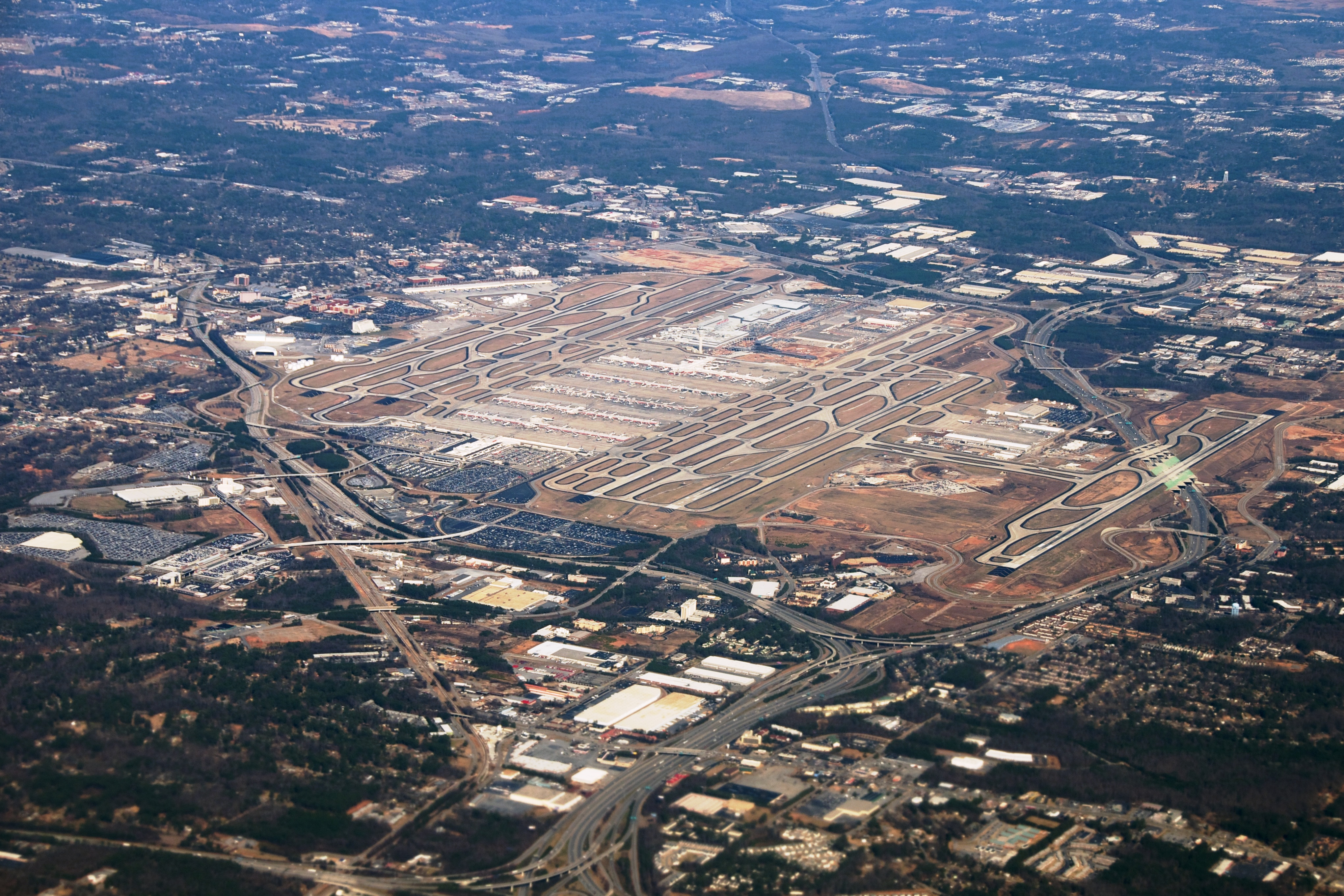 Aerial photo of Hartsfield-Jackson Atlanta International Airport on March 5, 2010 on approach and showing F concourse under construction